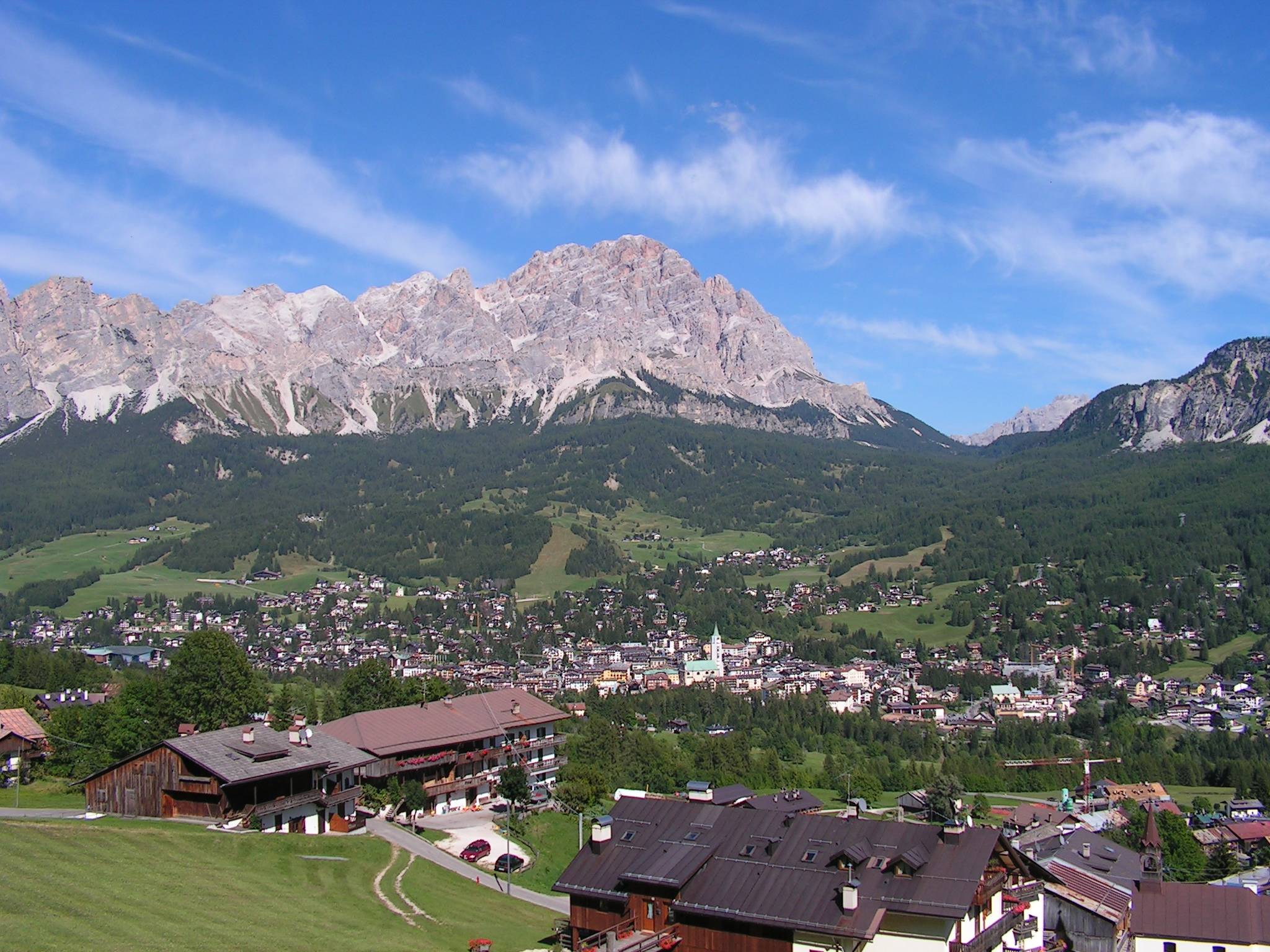 A view of Cortina d'Ampezzo. In the background the Monte Cristallo (3216 metres) with the Tre Croci Pass.